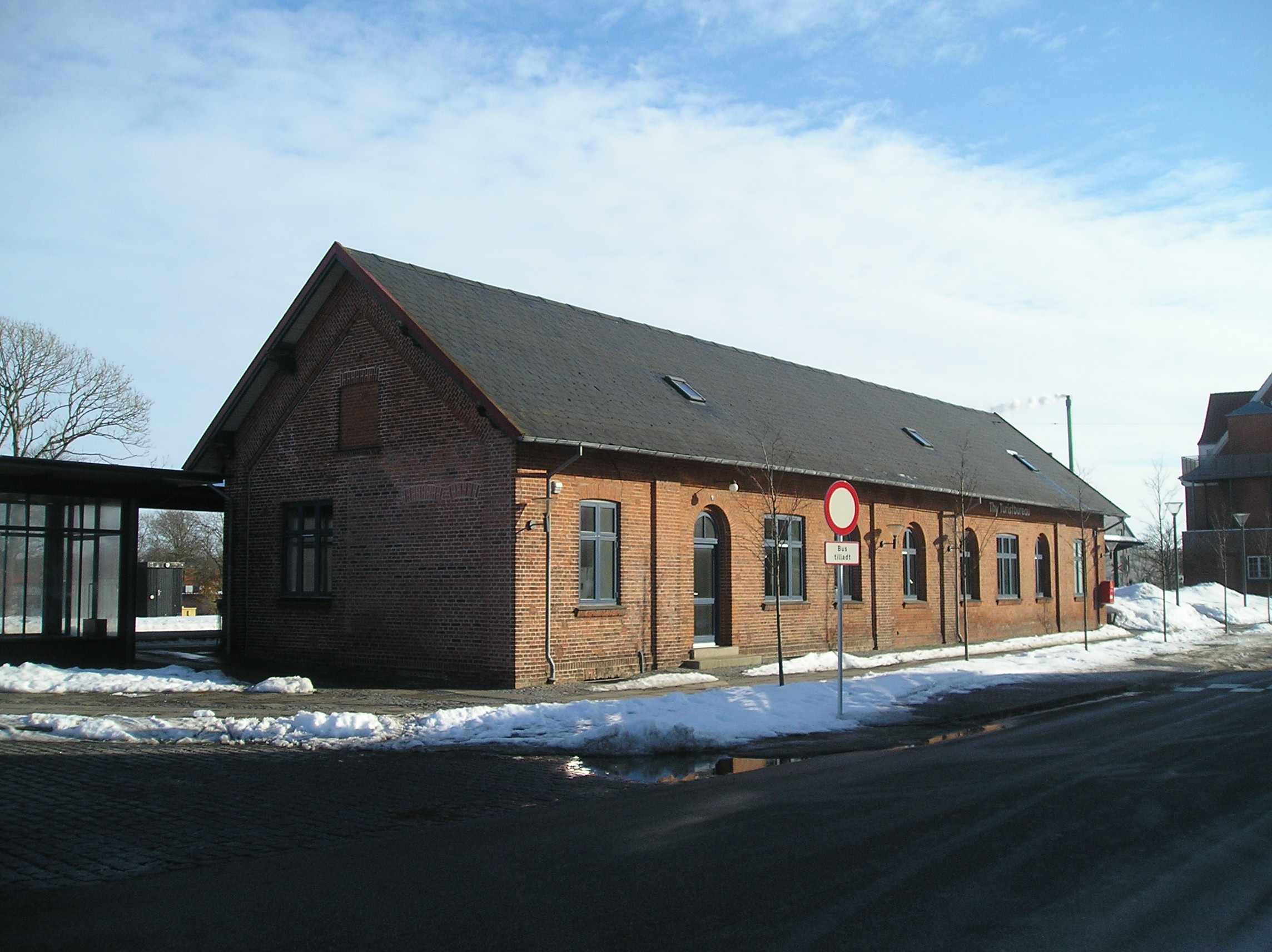 Hurup Thy Station on Thybanen between Struer and Thisted in Denmark.